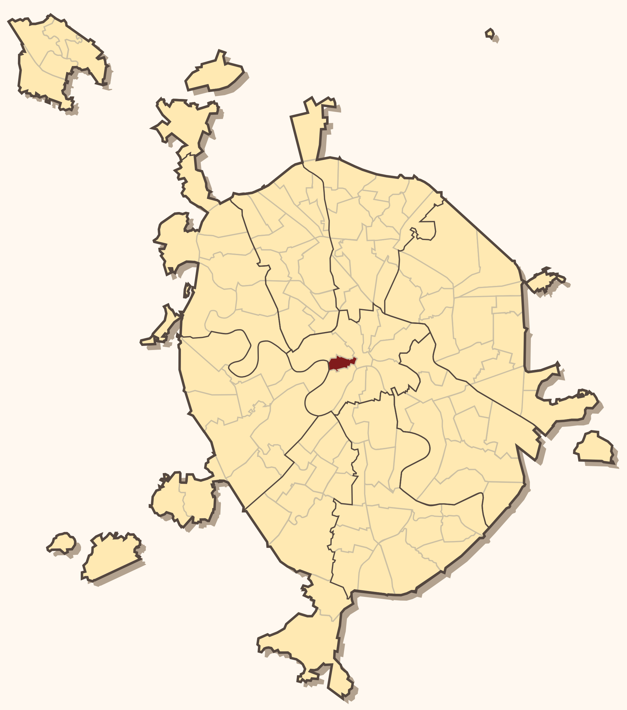 Moscow districts map